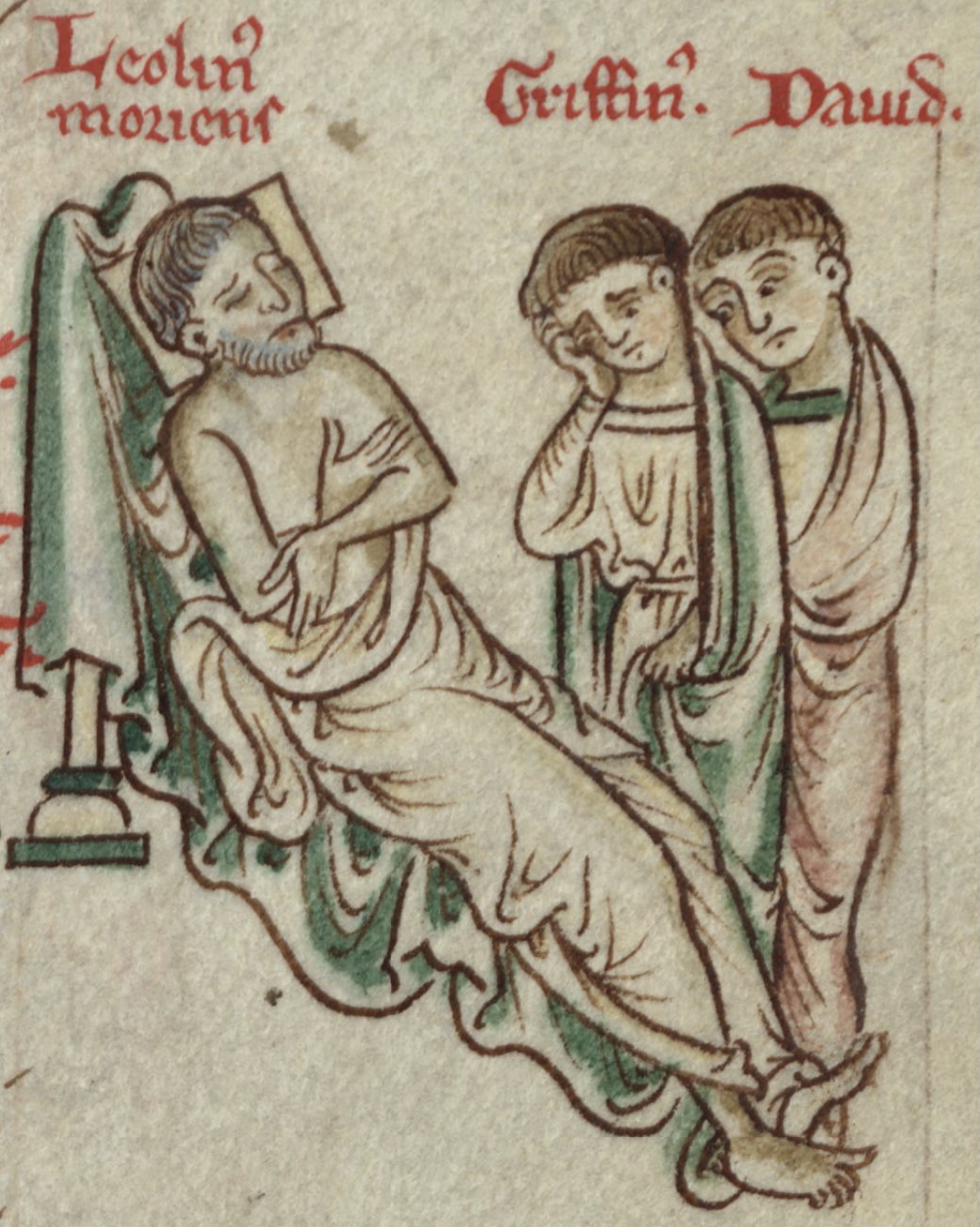 Manuscript drawing showing Llywelyn the Great with his sons Gruffydd and Dafydd. By Matthew Paris, in or before 1259.